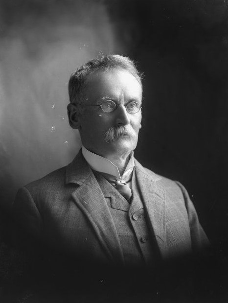 William Hall-Jones, 16th Prime Minister of New Zealand